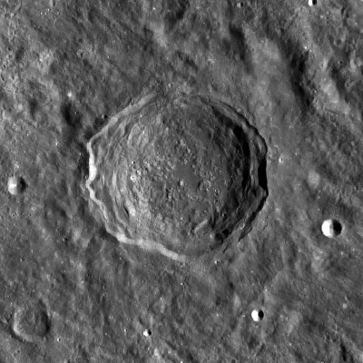 Lucretius lunar crater - LROC image